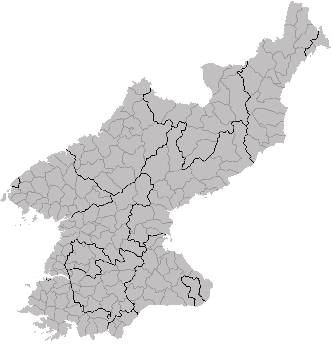 Map I made for Wikimedia commons.